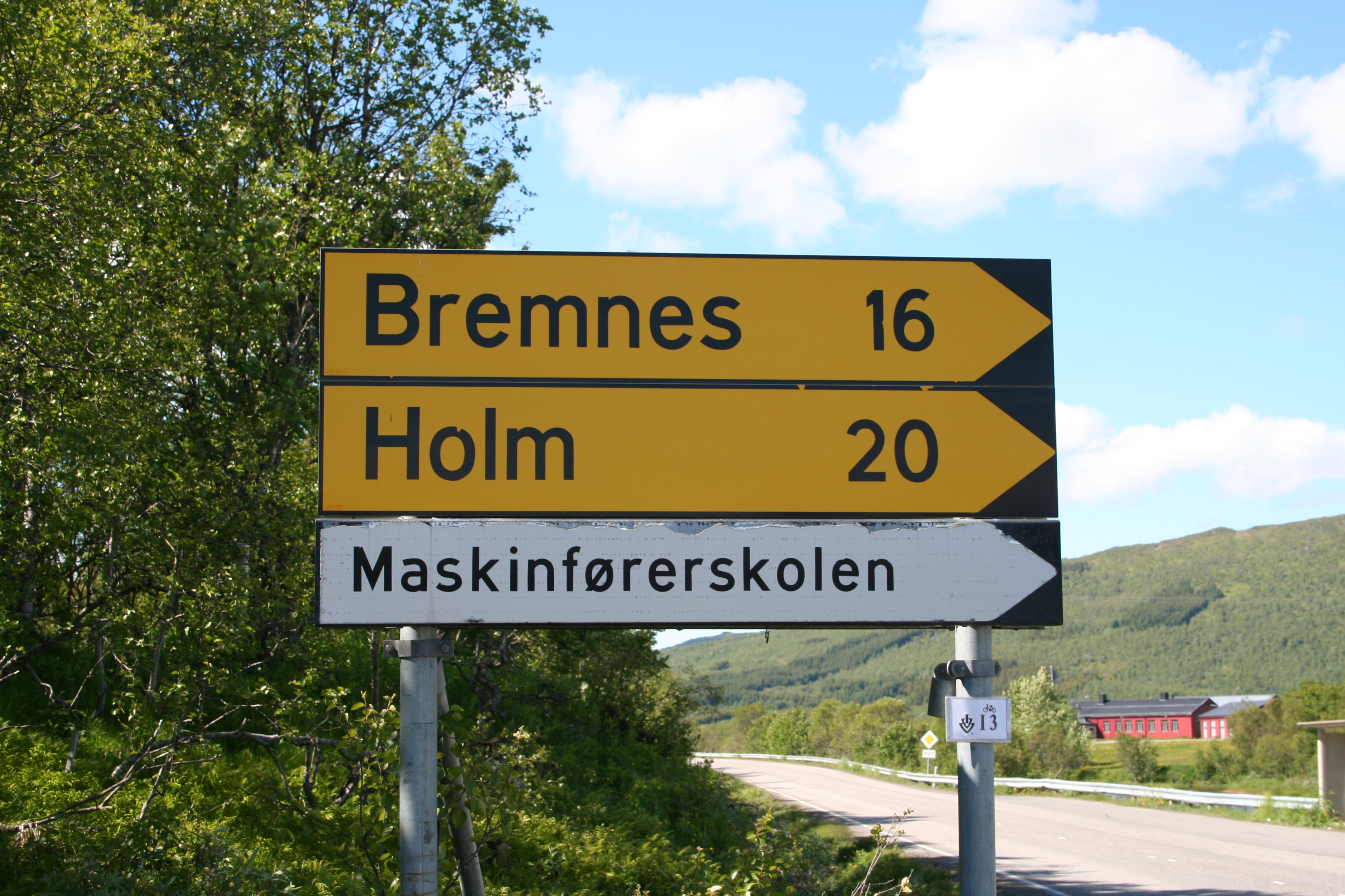 Road sign in Sortland, Norway